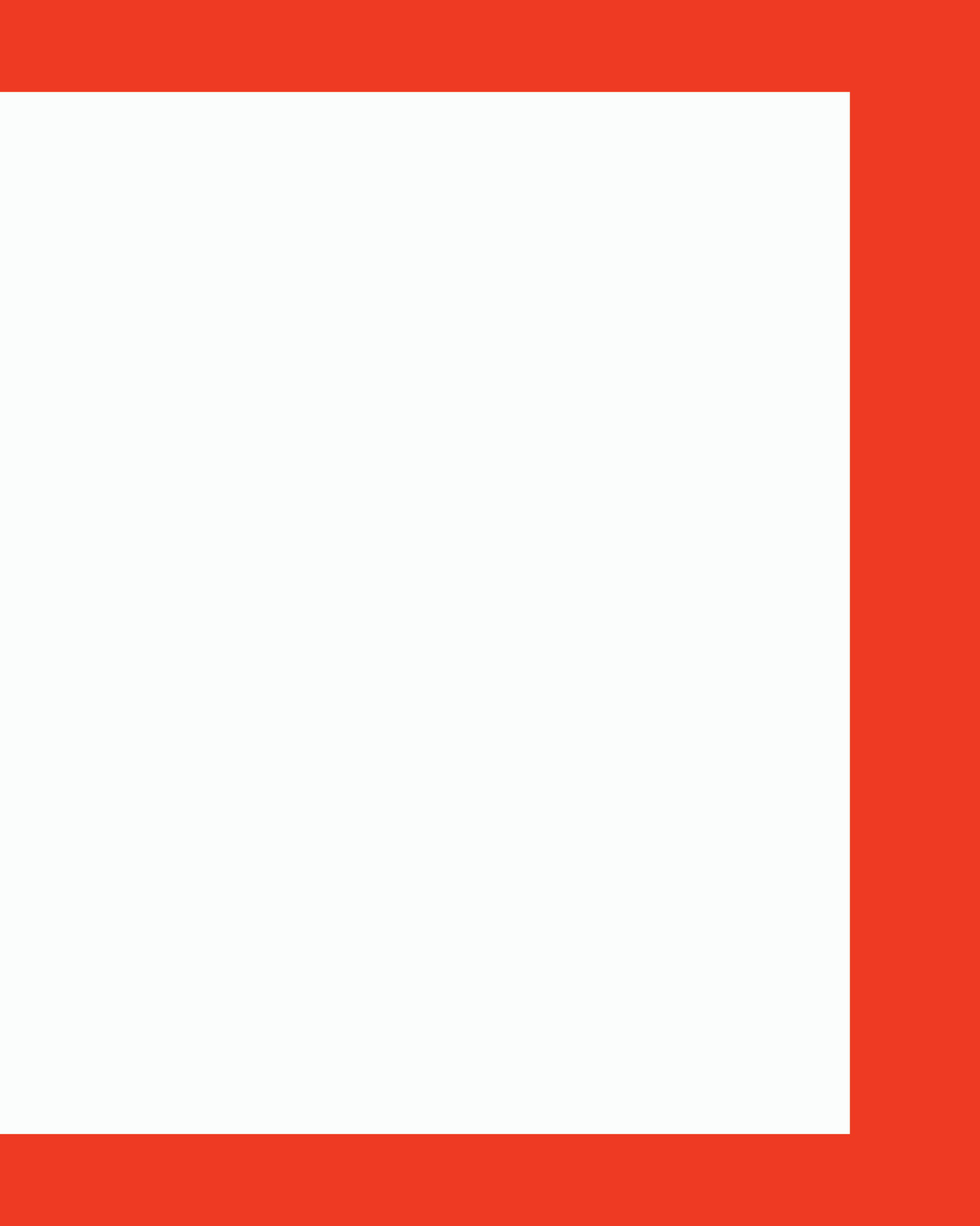 Based on David Nicolle "Armies of the Muslim Conquest" illustrations by Angus McBride. And Martin Hinds "The Banners and Battle Cries of the Arabs at Siffin" Al-Abhath XXIV